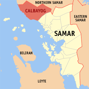 Map of Samar showing the location of Calbayog